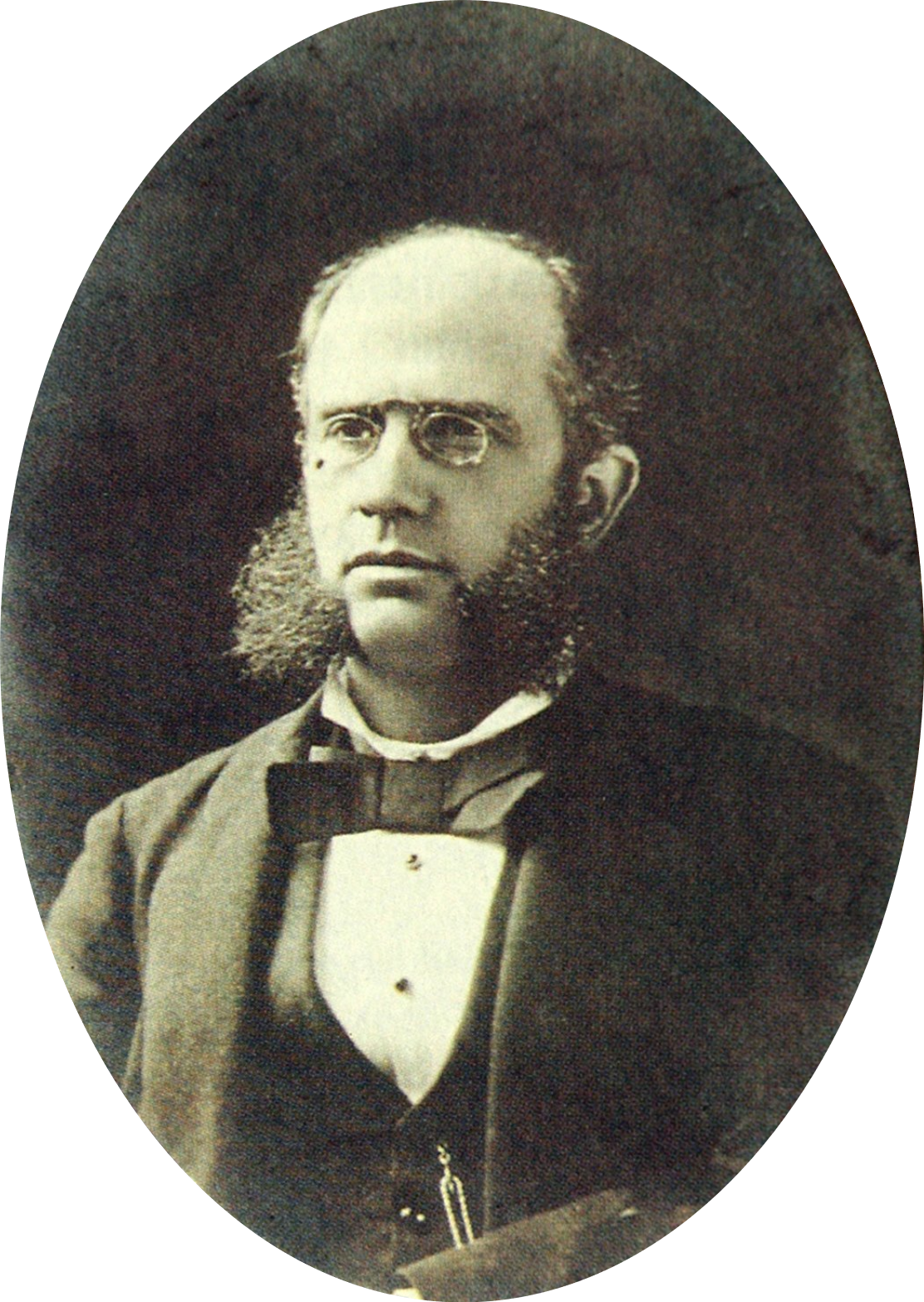 Carlos May Figueira (1829-1913), Portuguese physician